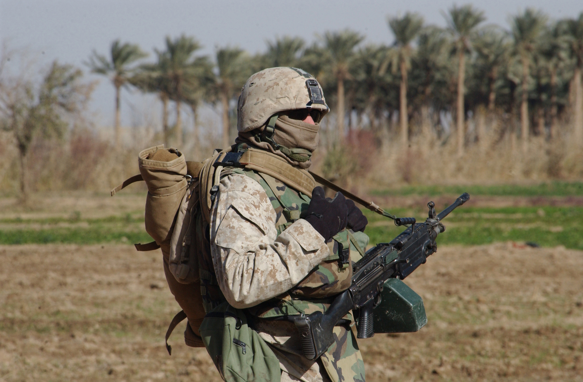 Armed with a Squad Automatic Weapon and cold weather gear, Lance Cpl. William English, machine gunner, 1st Platoon, Company B, 1st Battalion, 23rd Marine Regiment, and a 23-year-old native of Houston, takes part in a security patrol around Ramadi, Iraq, Dec. 27. In the tradition of their Vietnam predecessors, today's Marine infantry in Iraq are reinforcing a good relationship between government and local civilians with patrols on the front lines of an insurgency prior to elections January 30.